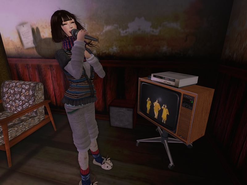 Karaoke on Second Life.